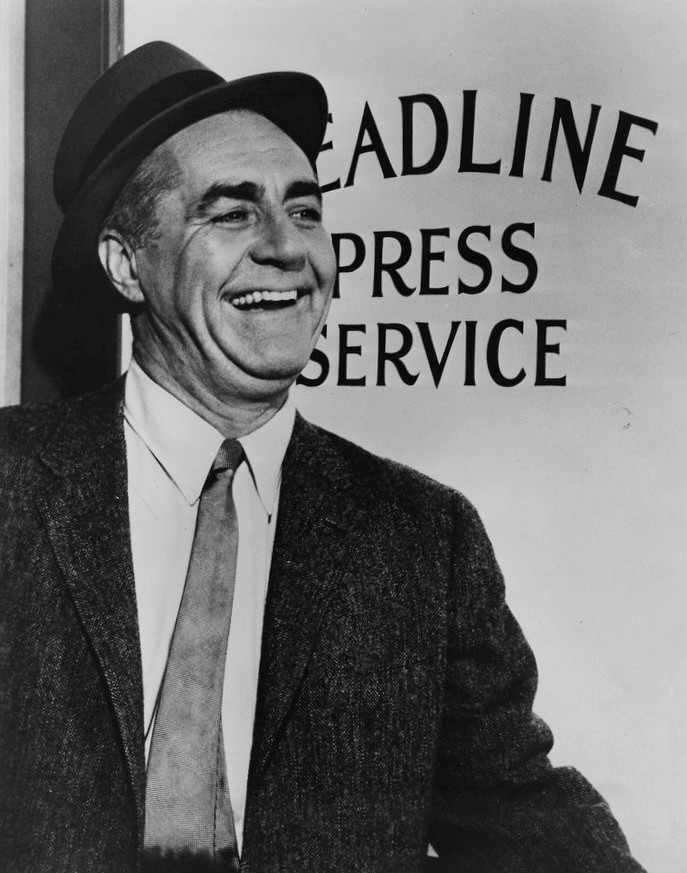 Photo of Jim Backus from the television program The Jim Backus Show.